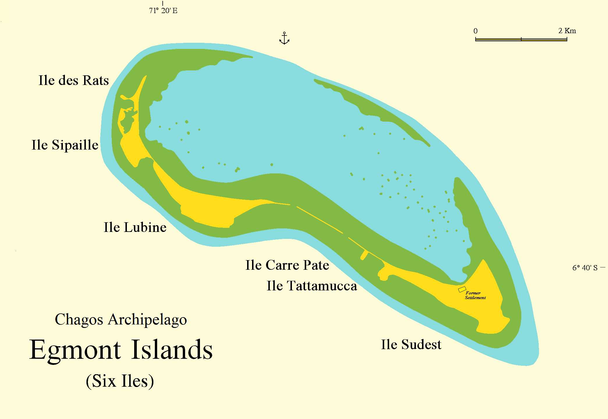 Island map